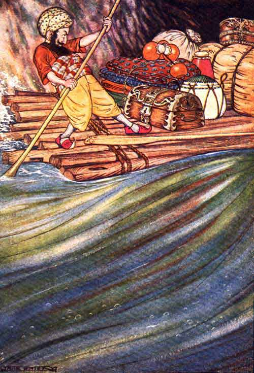 The Arabian Nights Entertainments Author: Anonymous Illustrator: Milo Winter